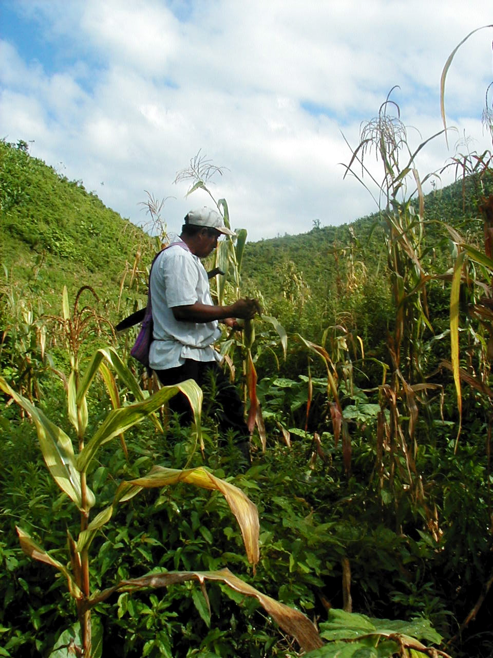 A farmer inspects his hand-tended corn crop near San Pedro Columbia village, Belize. keywords: farming, farmer, corn, agriculture, San Pedro Columbia, Belize, Central America, Maya